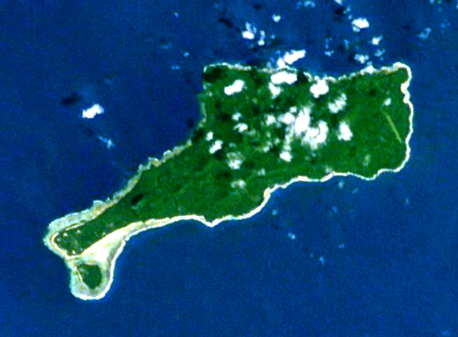 Astronaut photo of Mota Lava island, in the Banks Islands, Vanuatu. North at top. Cropped from Image:ESC large ISS006 ISS006-E-26739.JPG, rotated, colour rebalanced. (If these manipulations give me any copyright in the transformed image, I release it to the public domain.) Original image metadata follows: Mission: ISS006 Roll: E Frame: 26739 Mission ID on the Film or image: ISS006 Country or Geographic Name: VANUATU Features: BANKS ISLANDS, MOTA, SADDLE I. Center Point Latitude: -14.0 Center Point Longitude: 167.5 (Negative numbers indicate south for latitude and west for longitude) Date: 20030210 (YYYYMMDD)GMT Time: 222701 (HHMMSS) Nadir Point Latitude: -14.1, Longitude: 165.5 (Negative numbers indicate south for latitude and west for longitude) Nadir to Photo Center Direction: East Sun Azimuth: 96 (Clockwise angle in degrees from north to the sun measured at the nadir point) Spacecraft Altitude: 211 nautical miles (391 km) Sun Elevation Angle: 50 (Angle in degrees between the horizon and the sun, measured at the nadir point) Orbit Number: 130